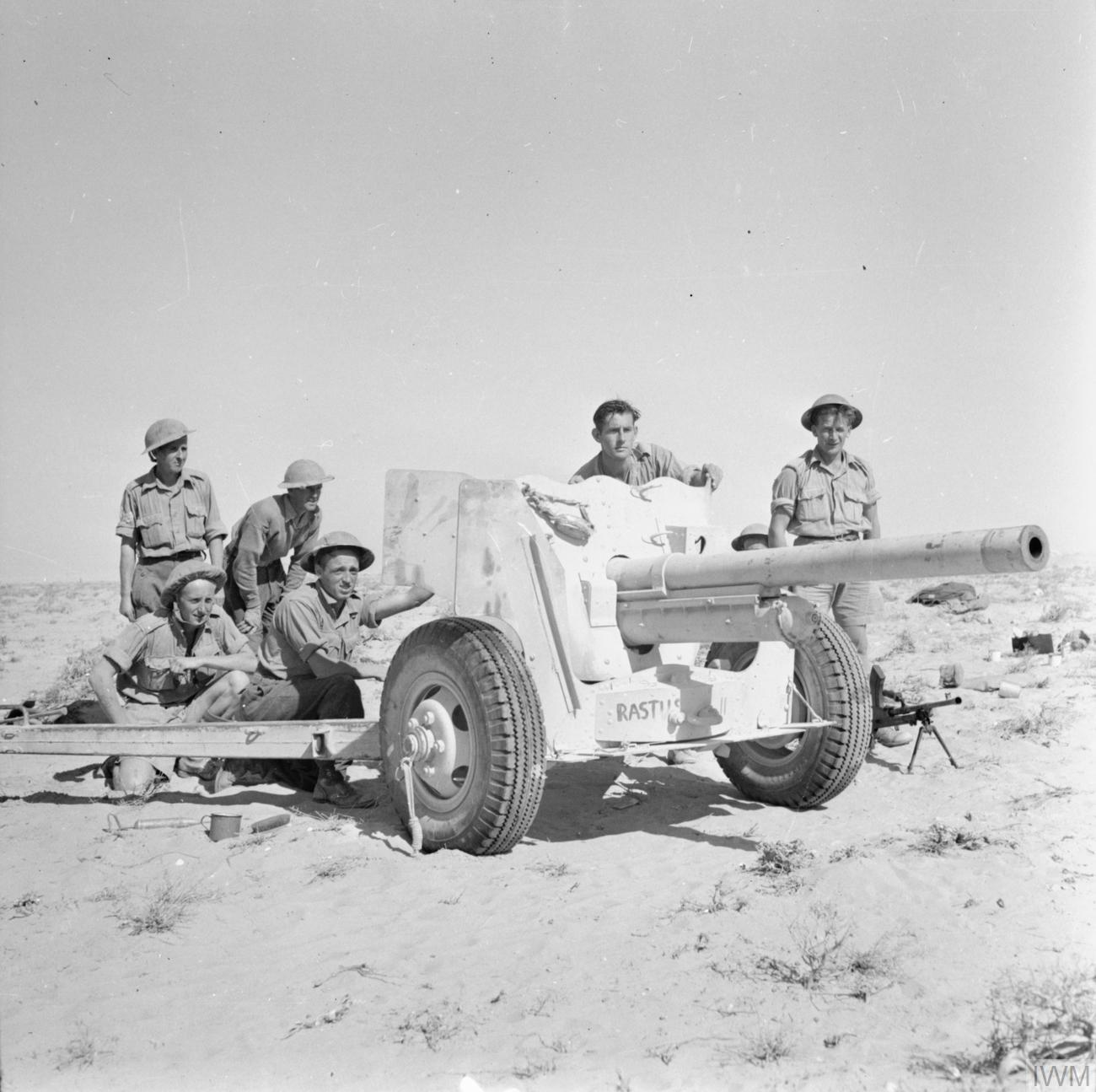 IWM caption : THE BRITISH ARMY IN NORTH AFRICA 1942. A 6-pdr anti-tank gun and its crew in action in the Western Desert, 3 November 1942.